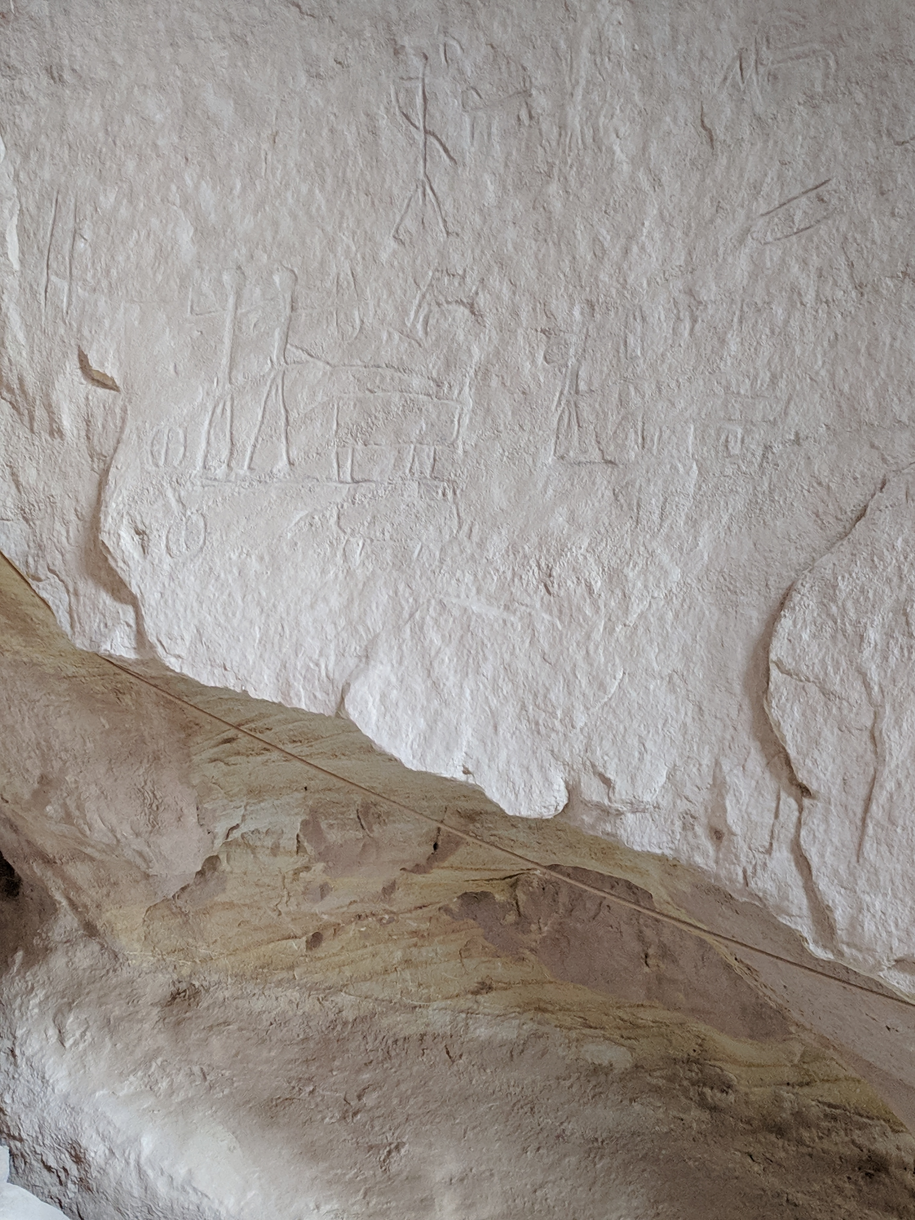 This is a rock drawing of Egyptian chariots at Timna Valley